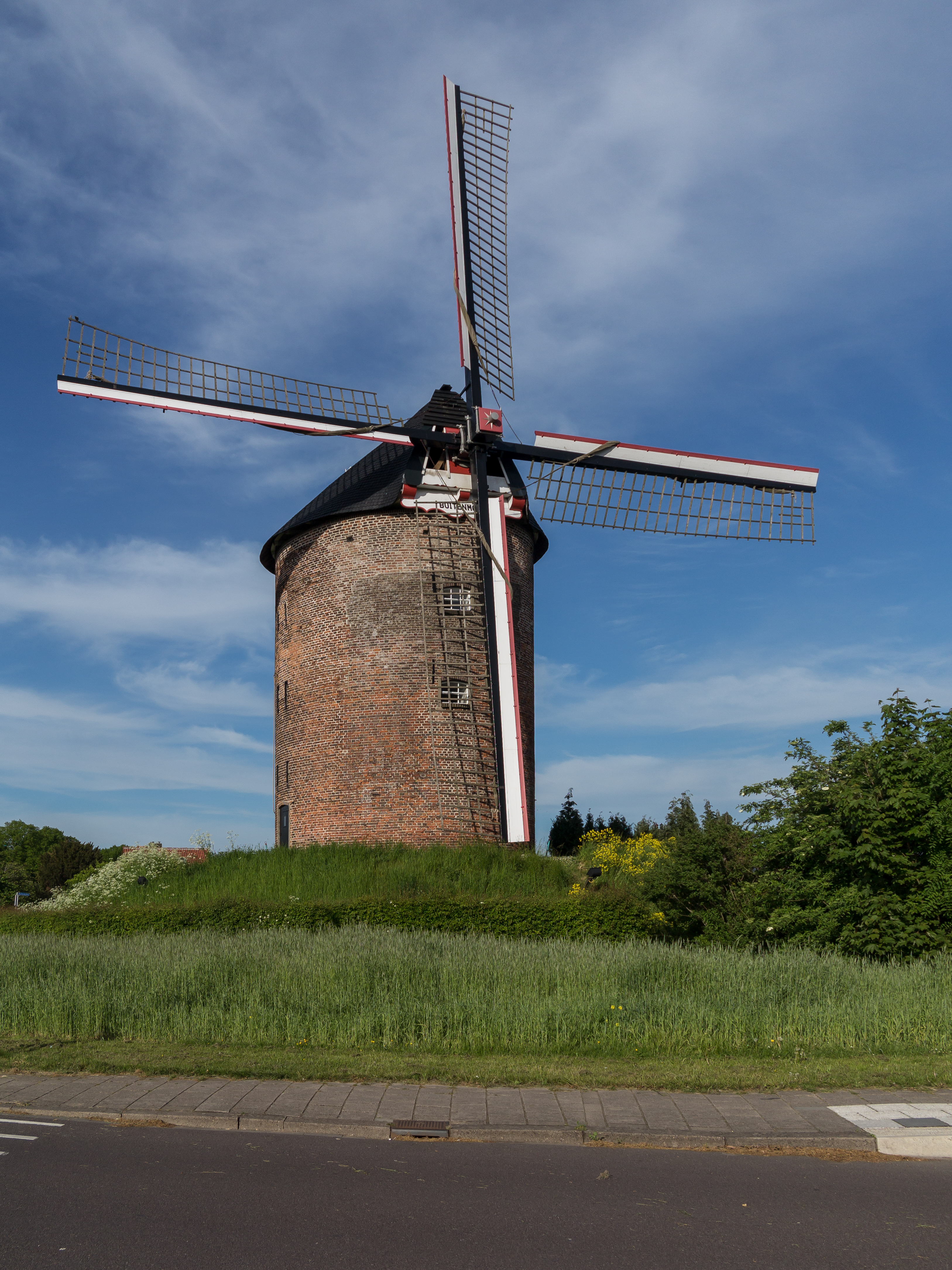 Zevenaar, windmill: de Buitenmolen